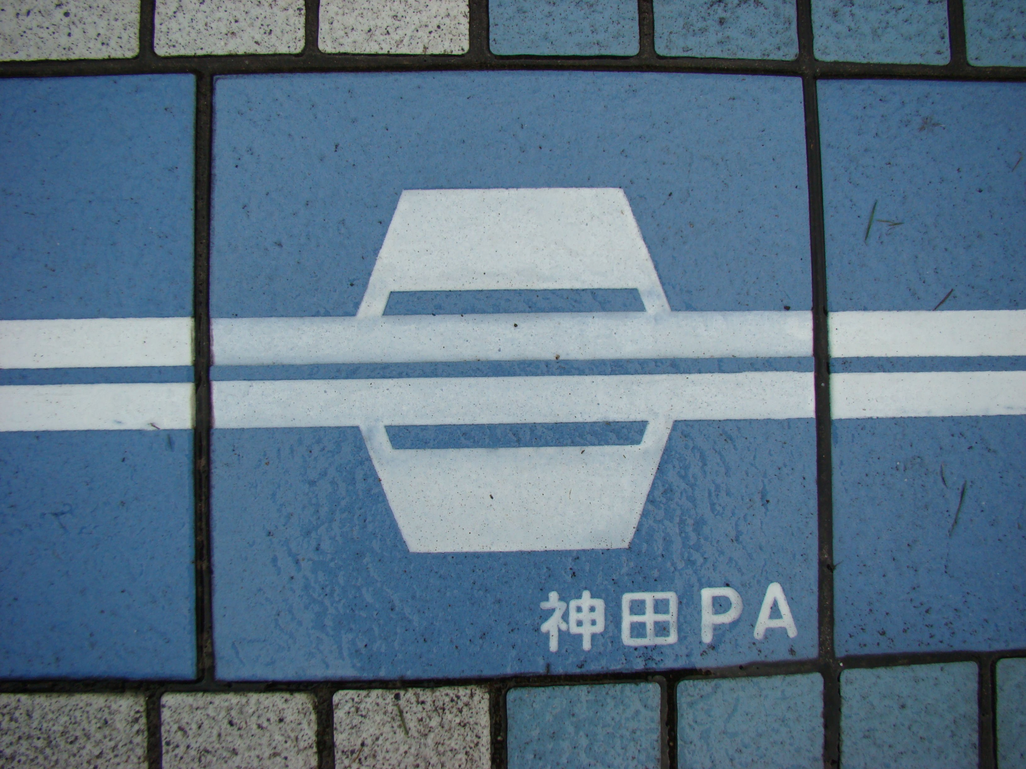 The tile which designed a shape of the Kanda Parking Area（Hokuriku Expressway）（There is this tile in Hokuriku Expressway Nadachi-Tanihama Service Area.）. Place - Chayagahara,Joetsu City,Niigata Prefecture,Japan Date - August 9, 2009 Format - JPEG, 3264x2448pixel, 24bit colors. Photographer - NALA Wiki (talk)